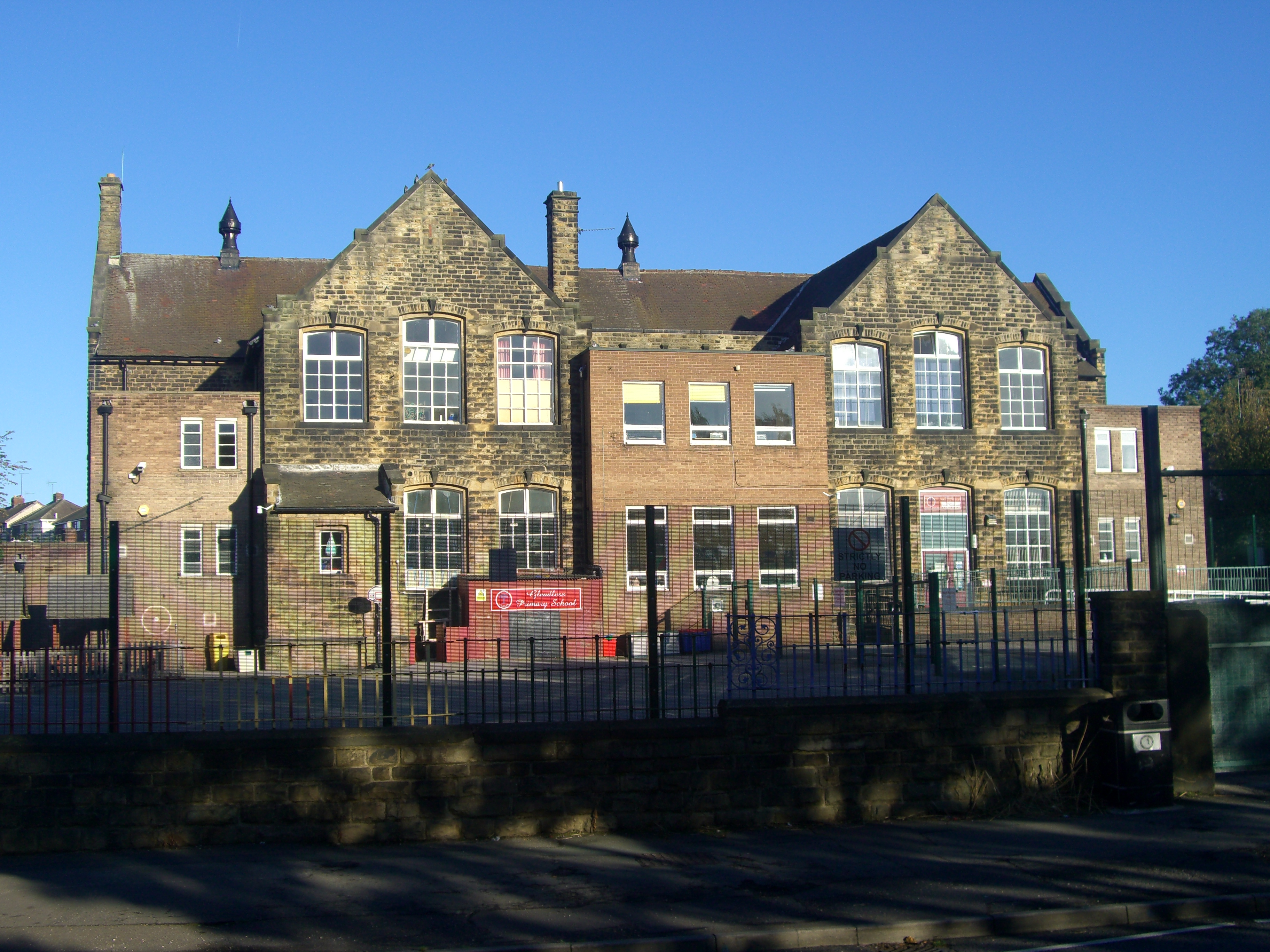 Gleadless Primary Schooll at Gleadless, Sheffield, UK.